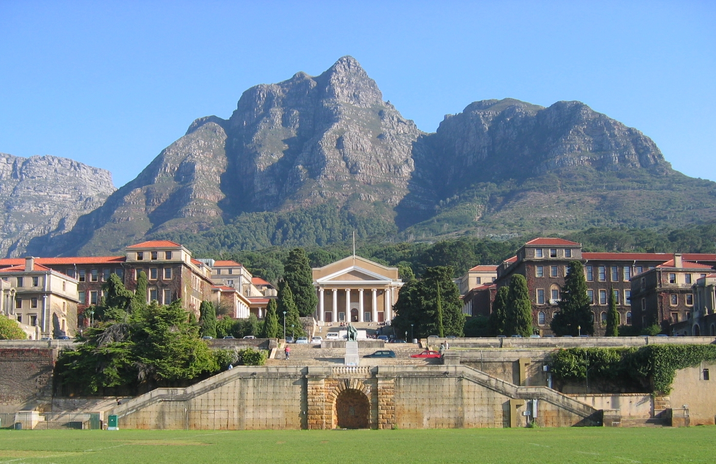 A view of the Upper Campus of the University of Cape Town, seen from the other side of the rugby fields.